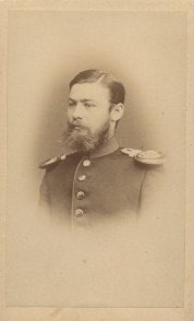 Philipp Bertkau Coleopterist